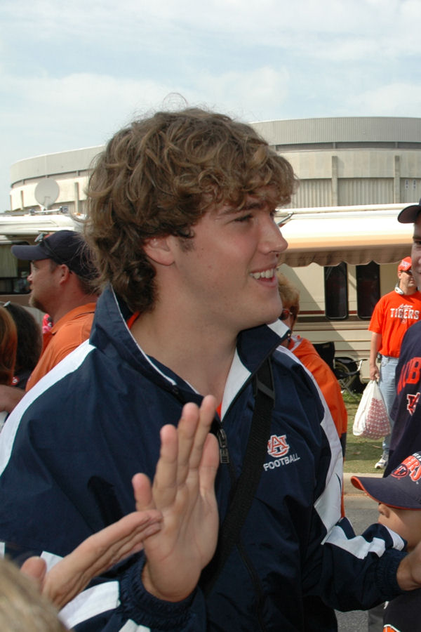 Former Auburn University college football player, John Vaughn in a Tiger Walk prior to a 2004 season game.